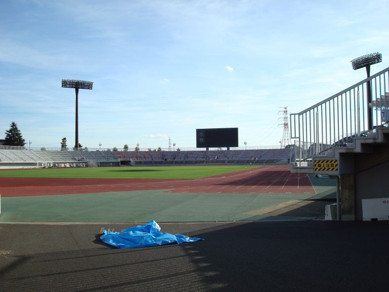 Track and field of Kasamatsu Sports Park Athletic Stadium in Hitachinaka City, Ibaraki Prefecture, Japan